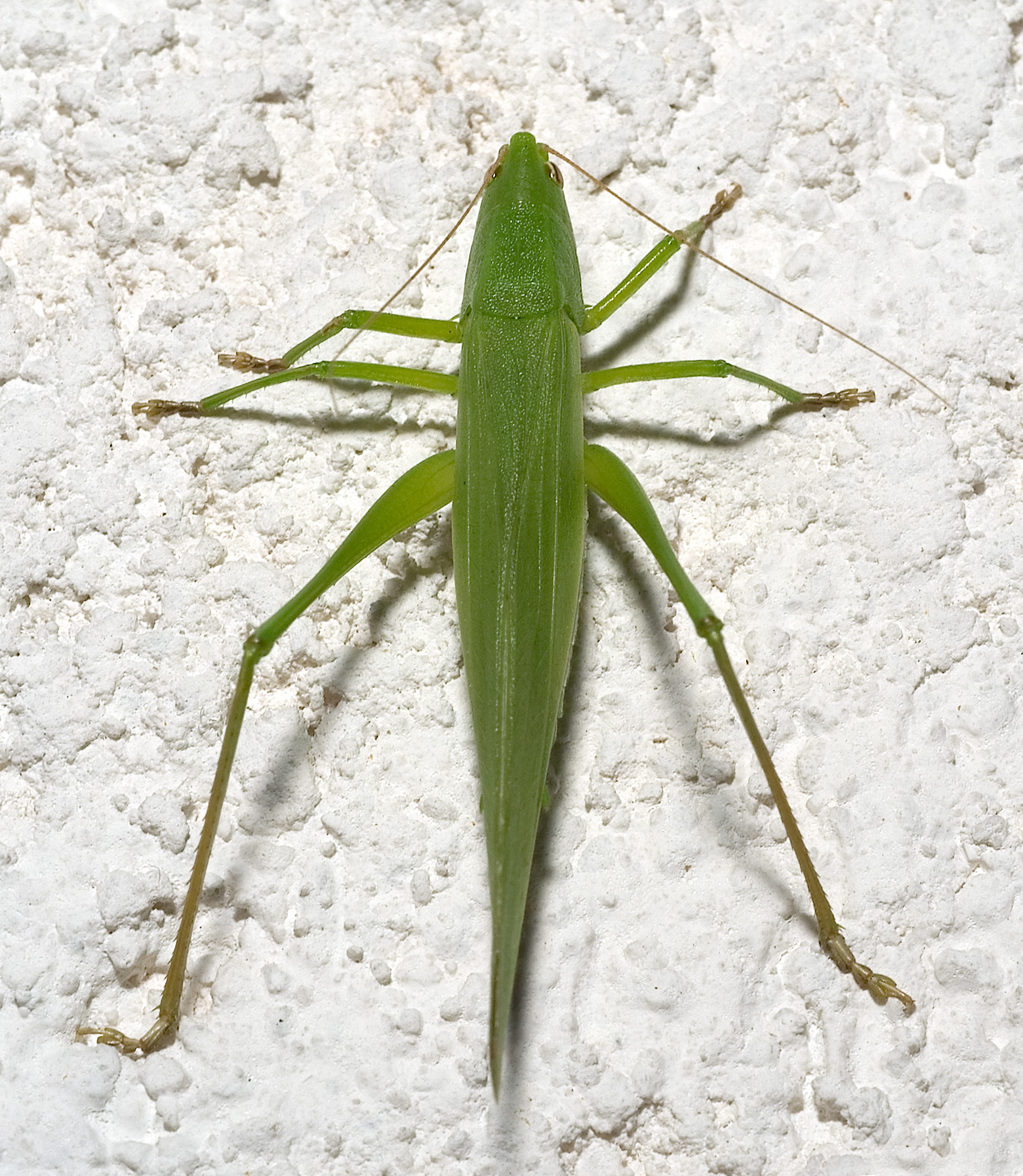 Please report references to kulacgmx.at.